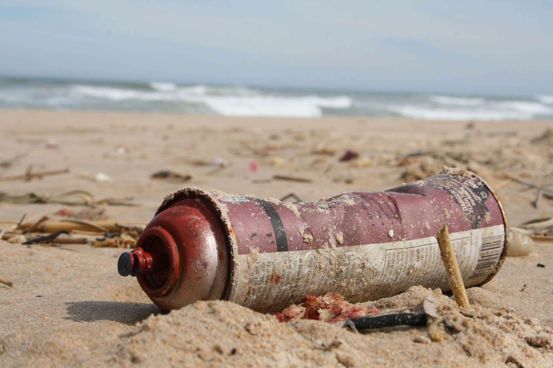 An aerosol can polluting the beach